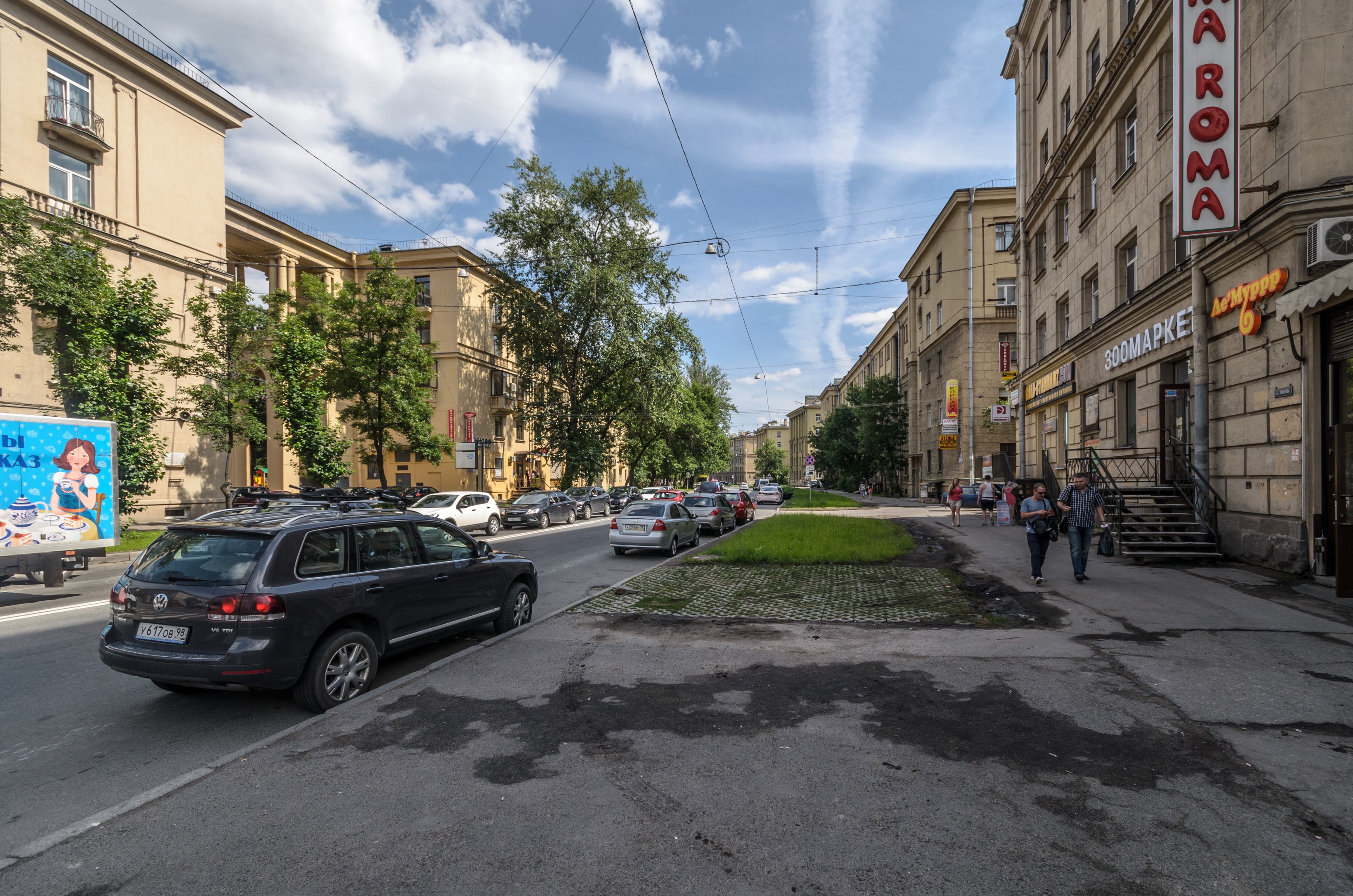 Zaytseva Street in Saint Petersburg